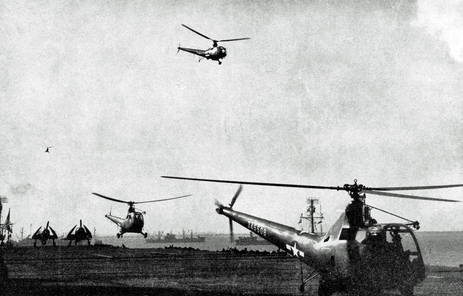 Sikorsky HOS-1 helicopters aboard the U.S. Navy aircraft carrier USS Shangri-La (CV-38), in 1946. The first helicopter is USAAF R-6A s/n 43-45508, licence-built by Nash-Kelvinator. Several R-6 were transferred to the U.S. Navy.